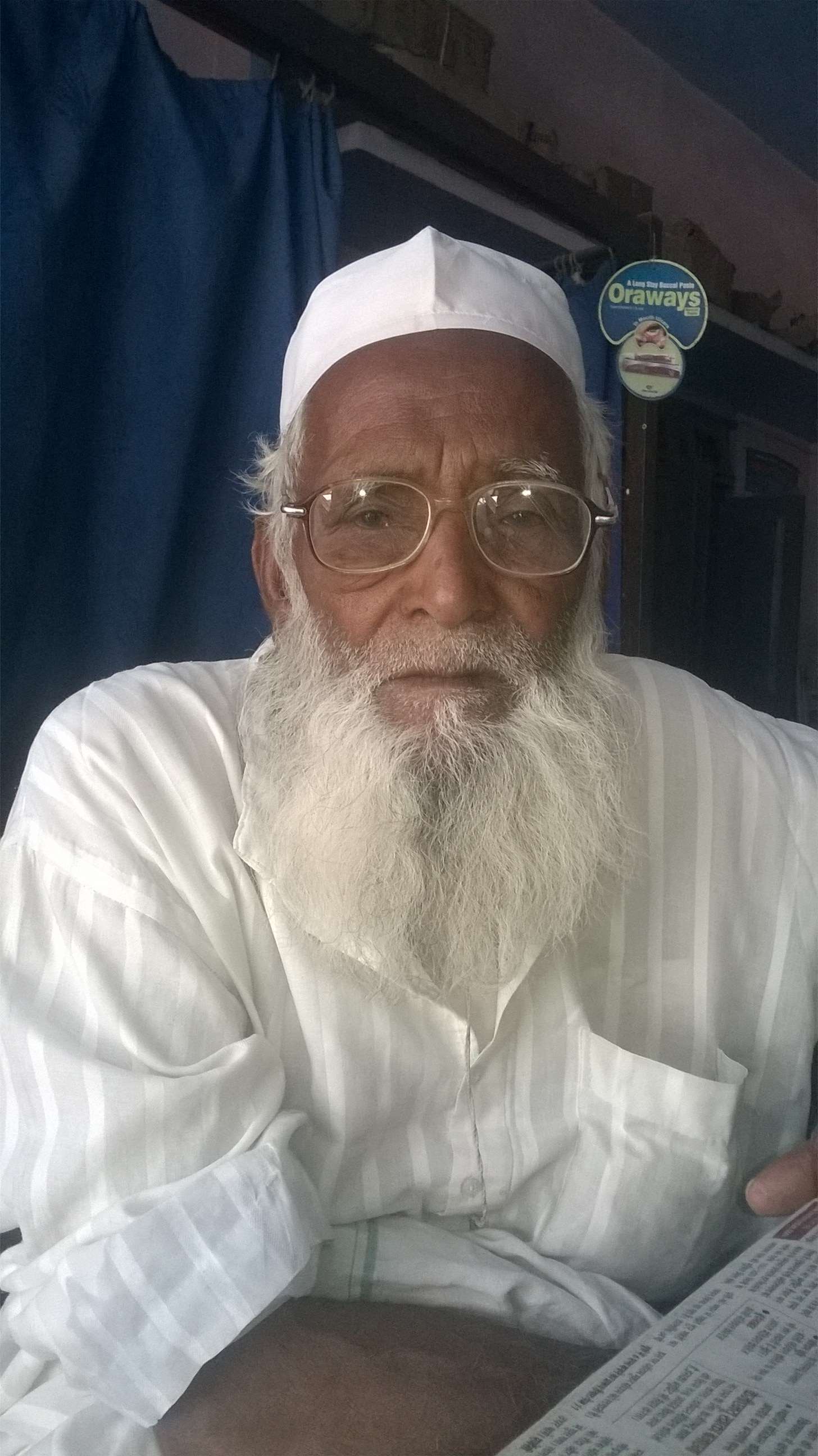 Sabir Jamali Bahraichi is urdu poet from Bahraich